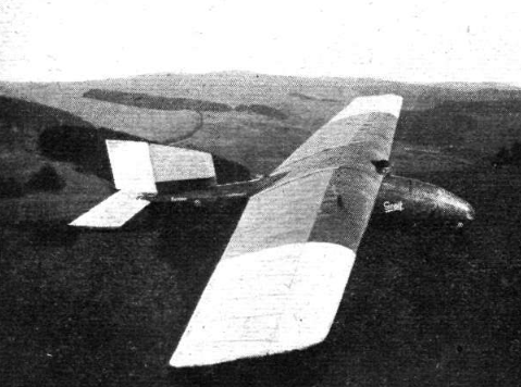 Hannover Greif at the 2nd Rhön contest, 1922